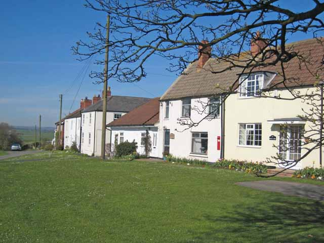 Letterbox House, Mordon It seems likely that the house with the letterbox inset into the wall was once the village post office. Set on an attractive village green.